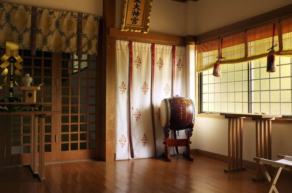 View of the Sanno shrine interior